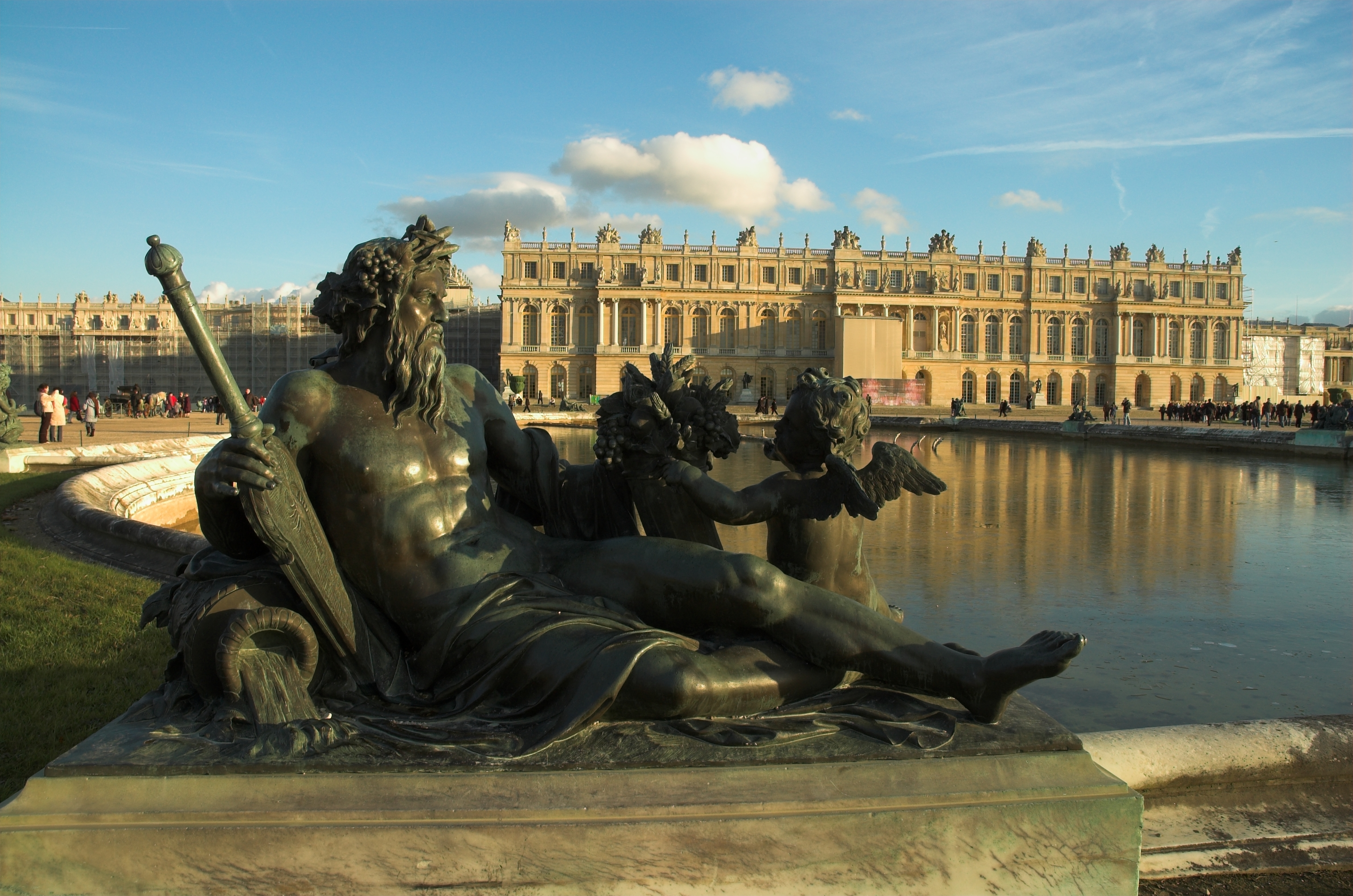 Étienne Le Hongre (French, 1628-1690): La Seine, Park of Versailles and garden facade of the Palace of Versailles, in winter.